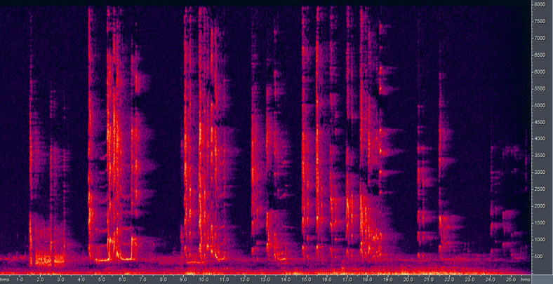 A sonogram of a recording of a Hawaiian Petrel in Haleakala National park, Hawaii